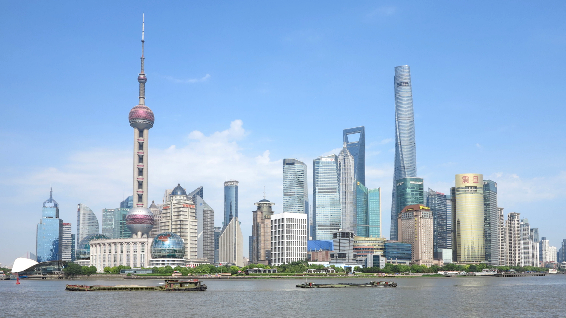 Shanghai skyline from The Bund